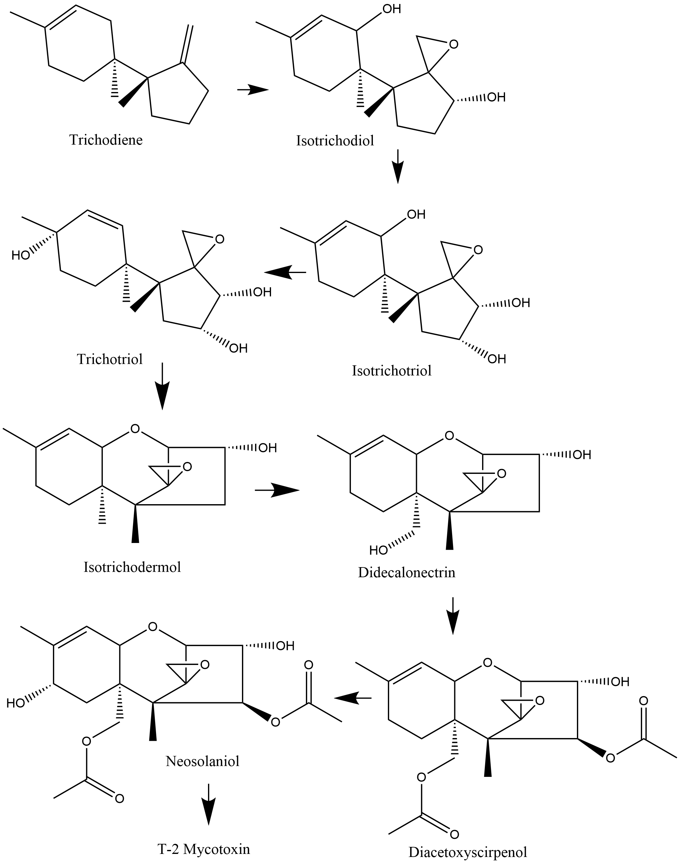 This picture represents the simplified biosynthesis of T-2 mycotoxin in F. sporotrichioides. It only shows the main oxidation and cyclization steps